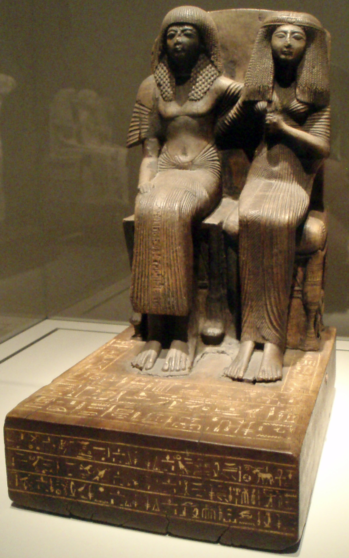 Statue of Amenope and his Wife. Circa 1280 B.C. Image taken at the Altes Museum, Berlin (part of the Ägyptisches Museum Berlin collection). Hieroglyphs on clothing, and an extensive hieroglyph statement at the statue base platform, and 'plinth'.